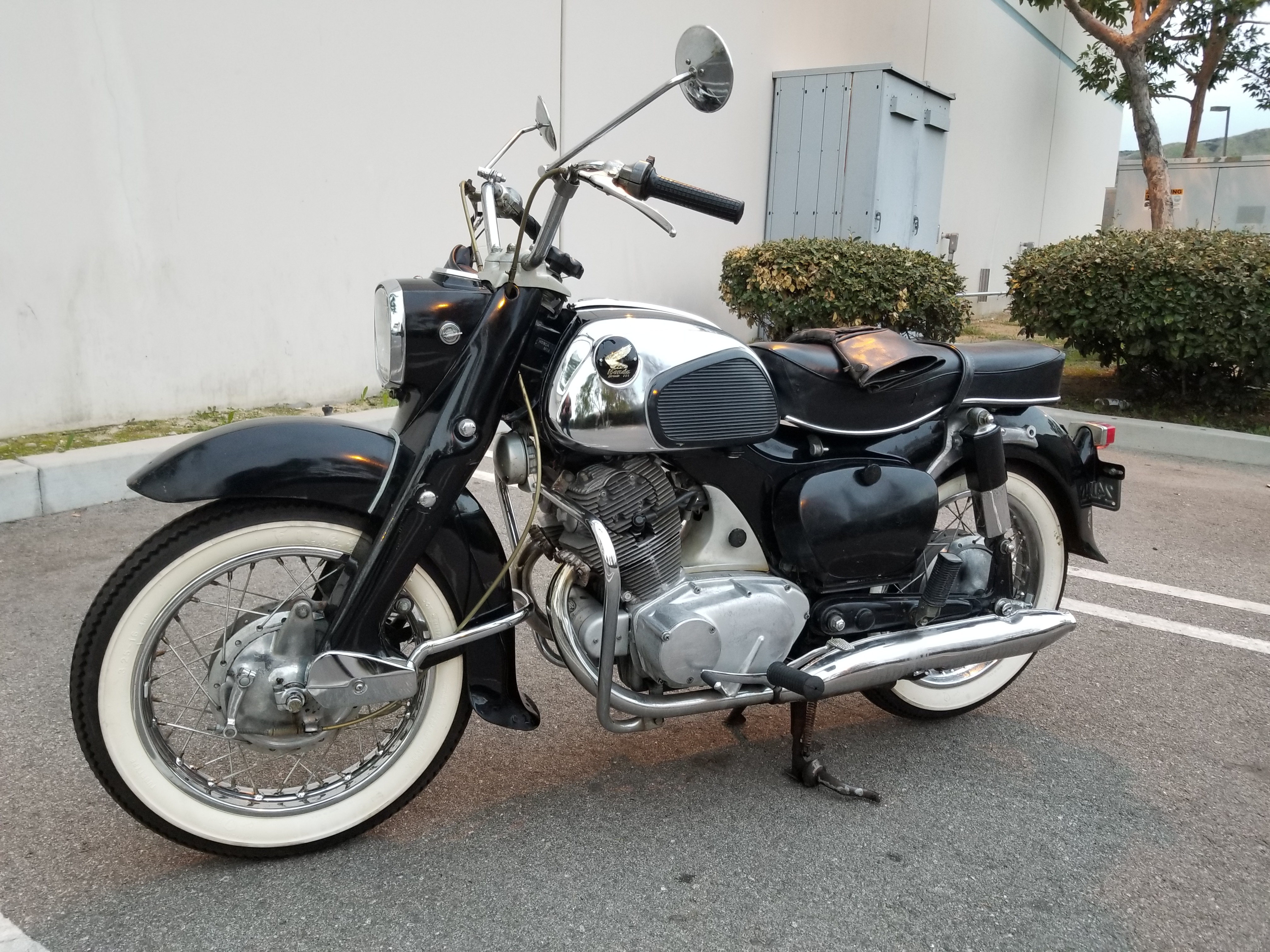 This is an early version of a Honda CA72 250cc Dream. The early versions had stainless steel mufflers, a different gas tank shape from later versions, and did not have mirrors mounted on lever perches like the late versions. The early versions of the 250cc & 305cc Dreams had their own distinct gas tanks compared to late versions which shared the same tank and most parts.